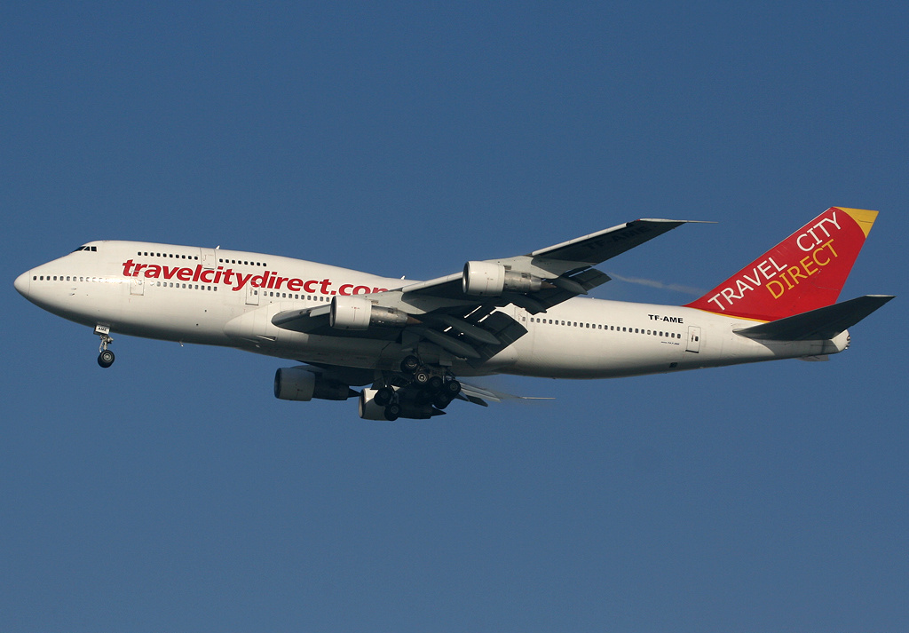 Boeing 747-312 operated by Air Atlanta Icelandic in Travel City Direct livery at Manchester International Airport